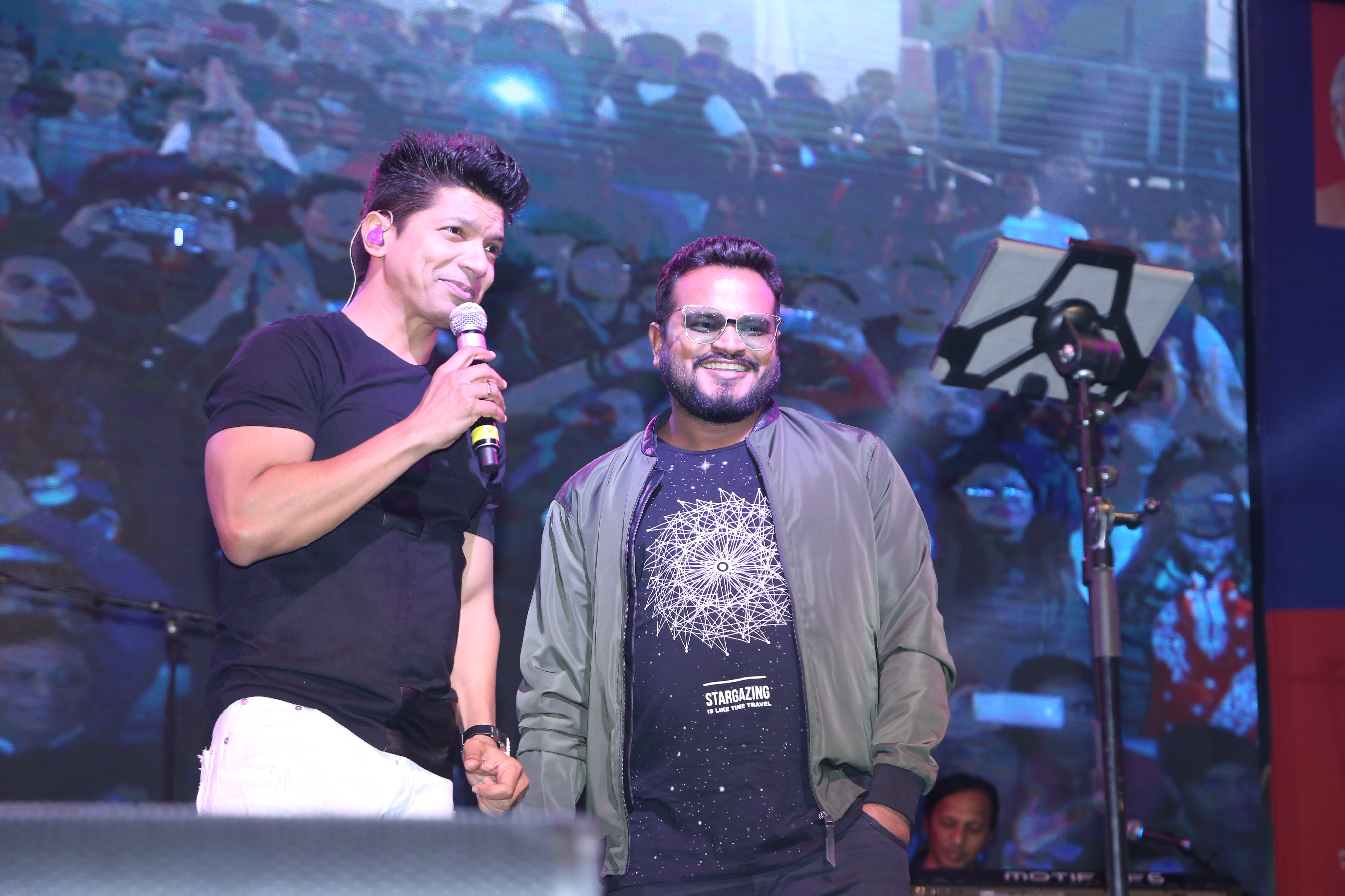 Hai Halla Live Show In Indore with Shaan and Rishikesh Pandey